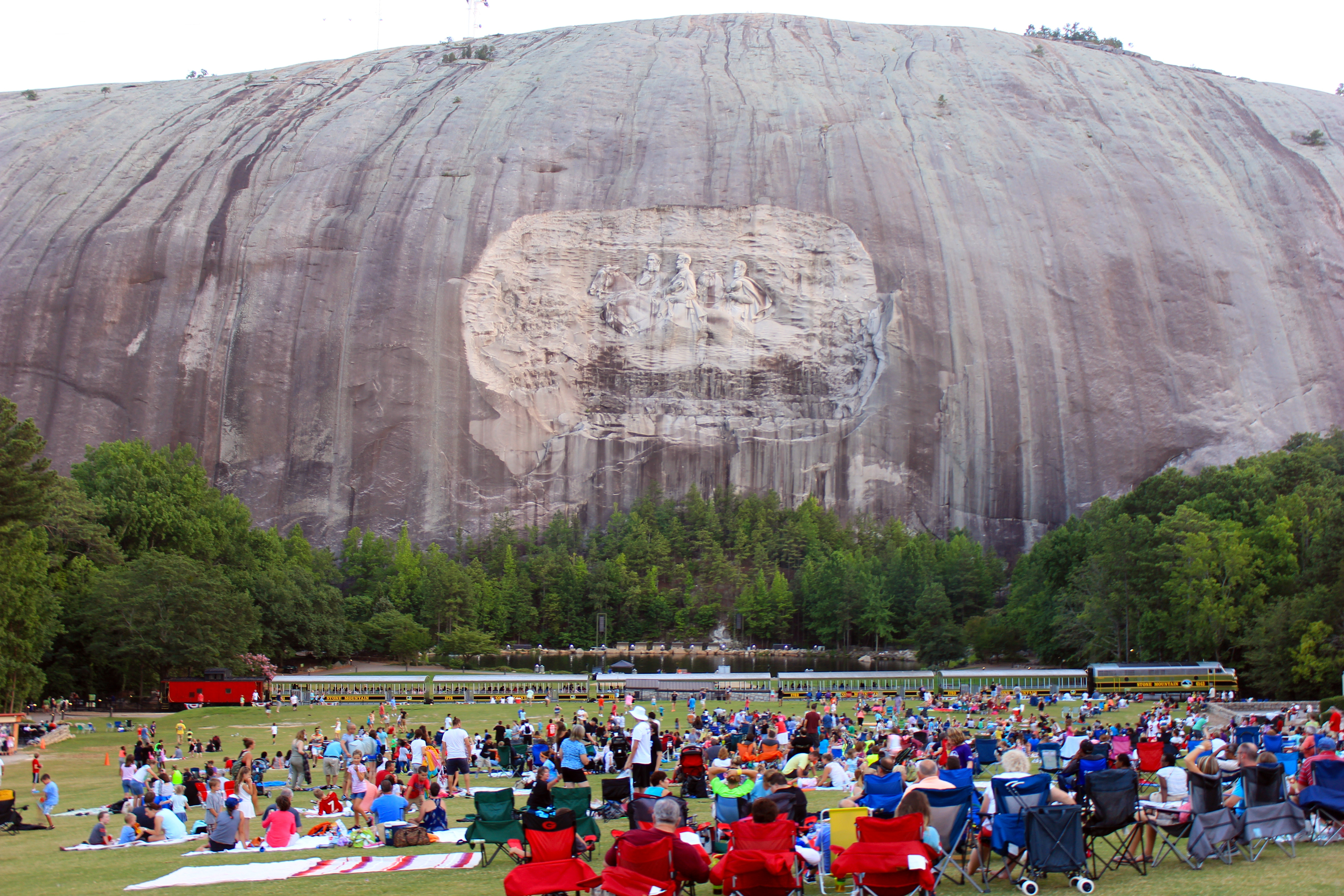 Mountain, carving, and train as visitors prepare to watch the nightly laser light show.